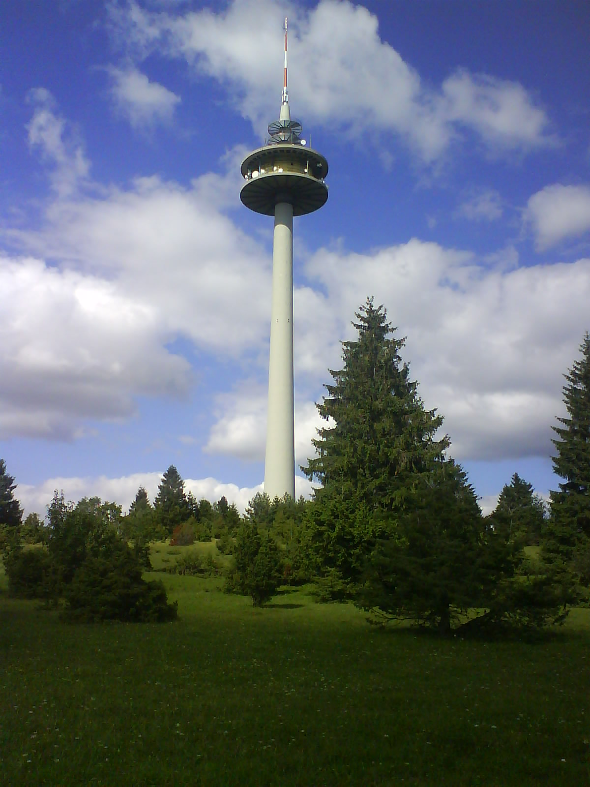 The tower of the Plettenberg is in the background, in the foreground you can see some juniper trees. Picture taken on the plateau.